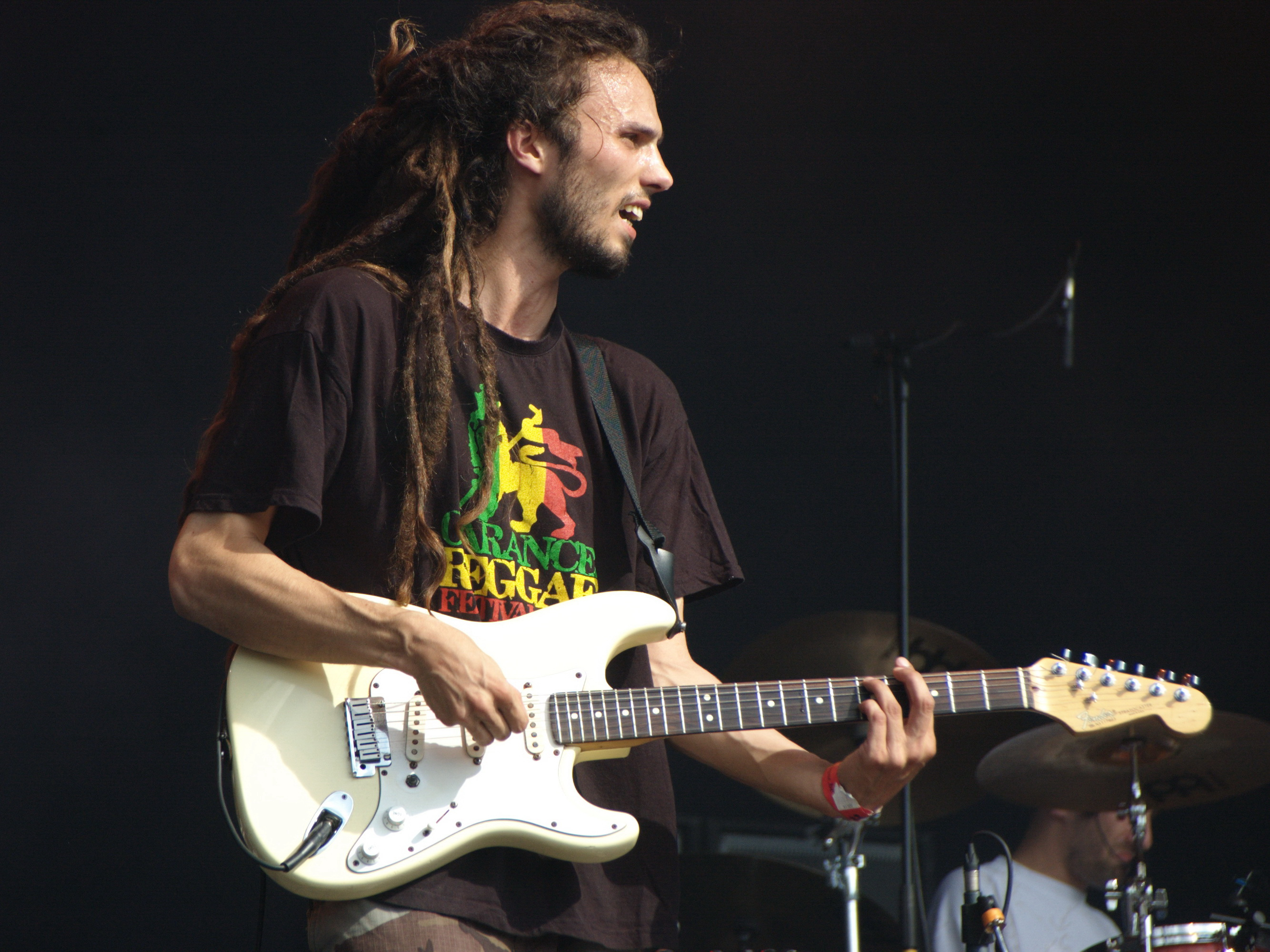 String player from the group Dub Incorporation in Brussels